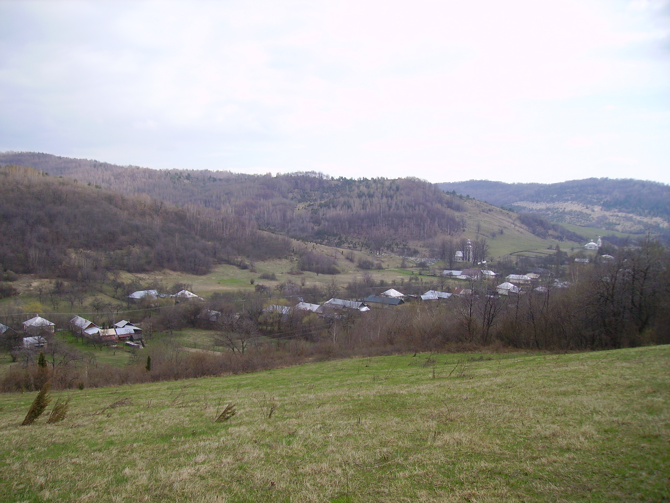 Village Osadne. sight to the southeast.